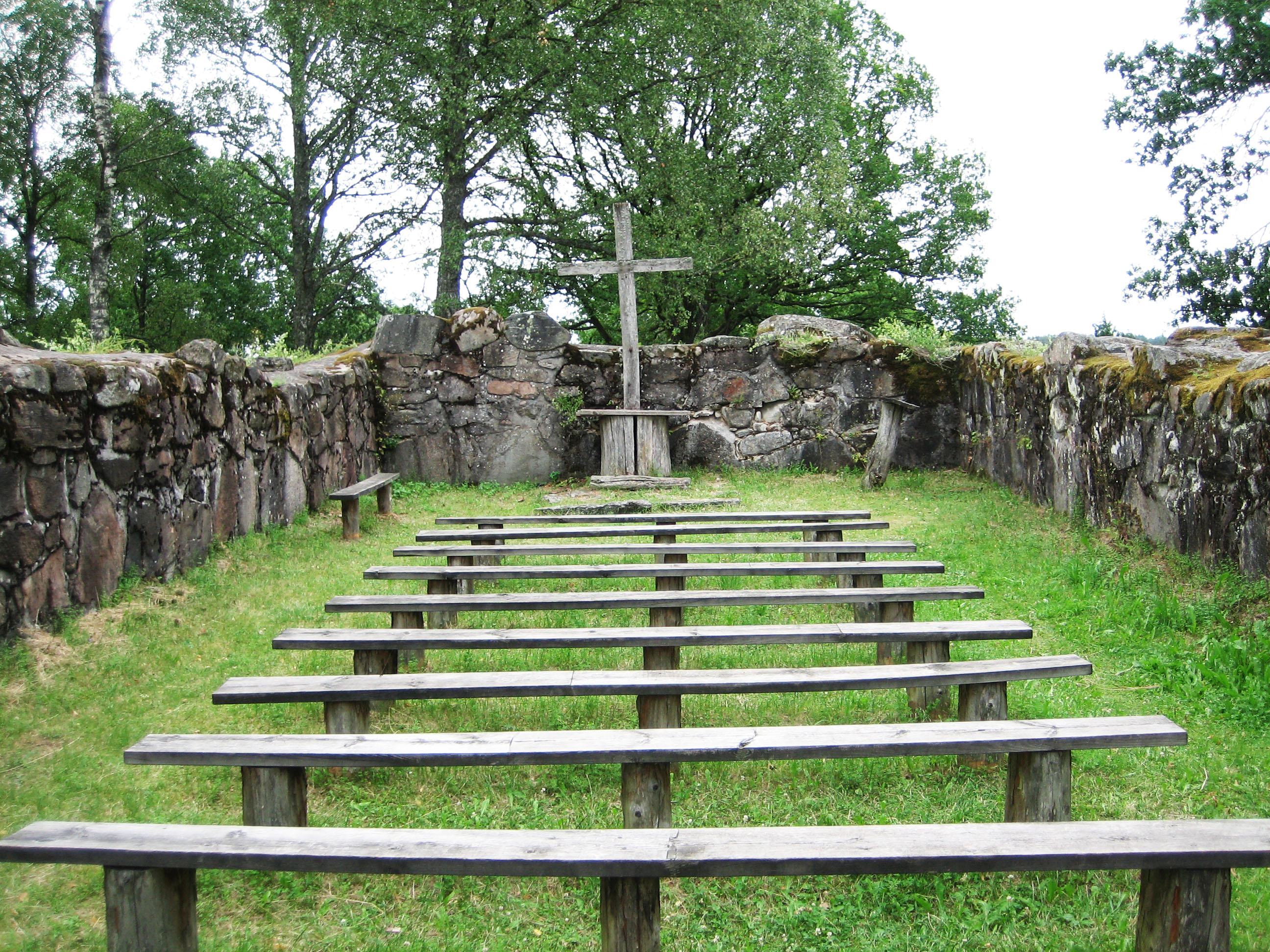 The interior of the Hallsjö church ruin (Hallsjö kyrkoruin), Småland, Sweden. Photo by the uploader.